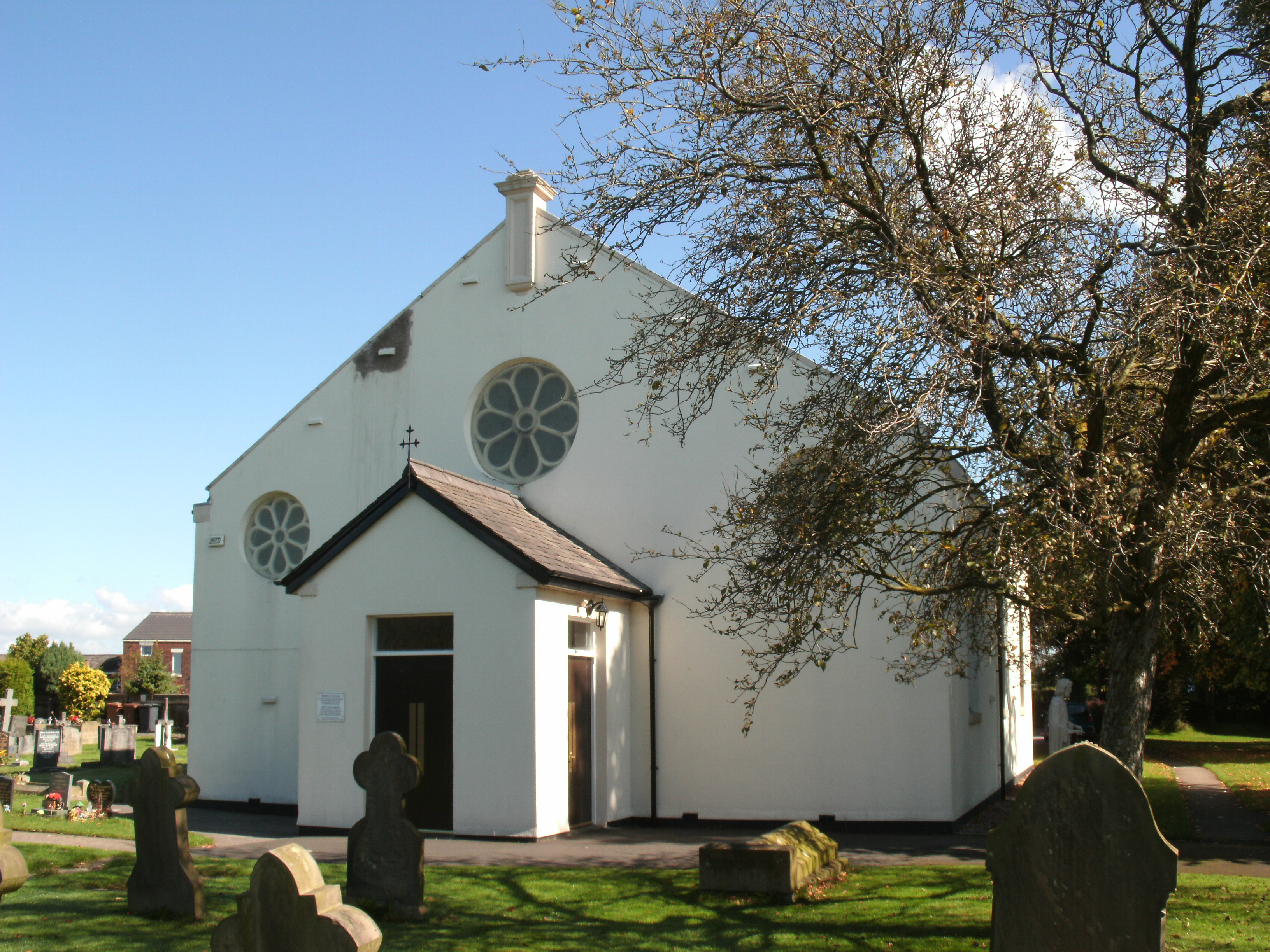 St. Andrew's and Blessed George Haydock's Catholic Church, Cottam, Lancashire, UK